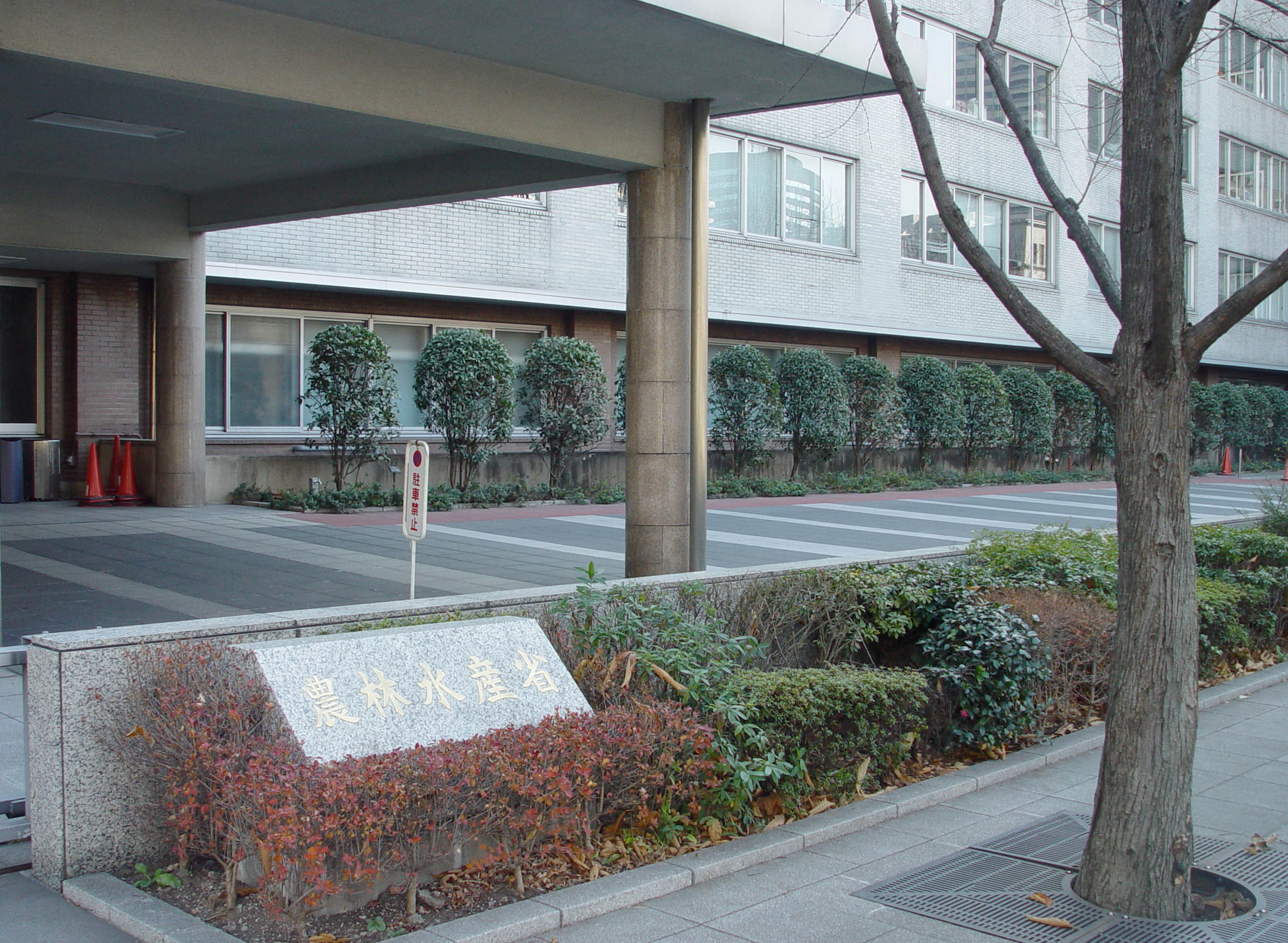 Public office building of Japan: The Ministry of Agriculture, Forestry and Fisheries 庁舎： 農林水産省